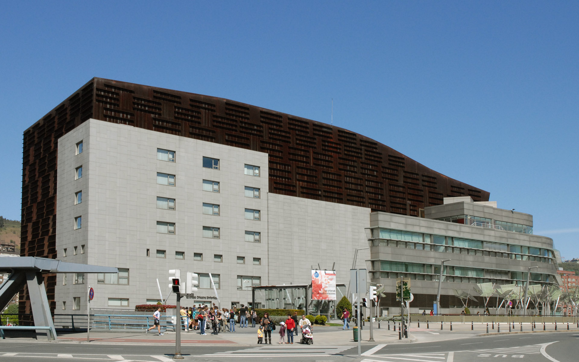 The Euskalduna Palace or Conference Centre and Concert Hall centre is located in Bilbao, Spain. It, along with the Gugenheim museum, is the face of new Bilbao.